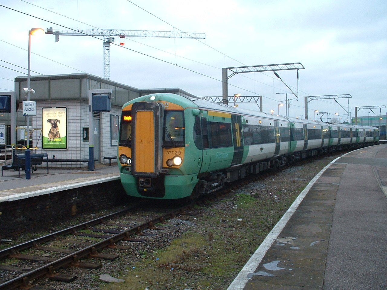 Class 377 unit 377213 seen at Watford Junction bay platform 10, about to depart on a Southern service to Brighton. Note pantograph, absent in the majority of Southern 377s.